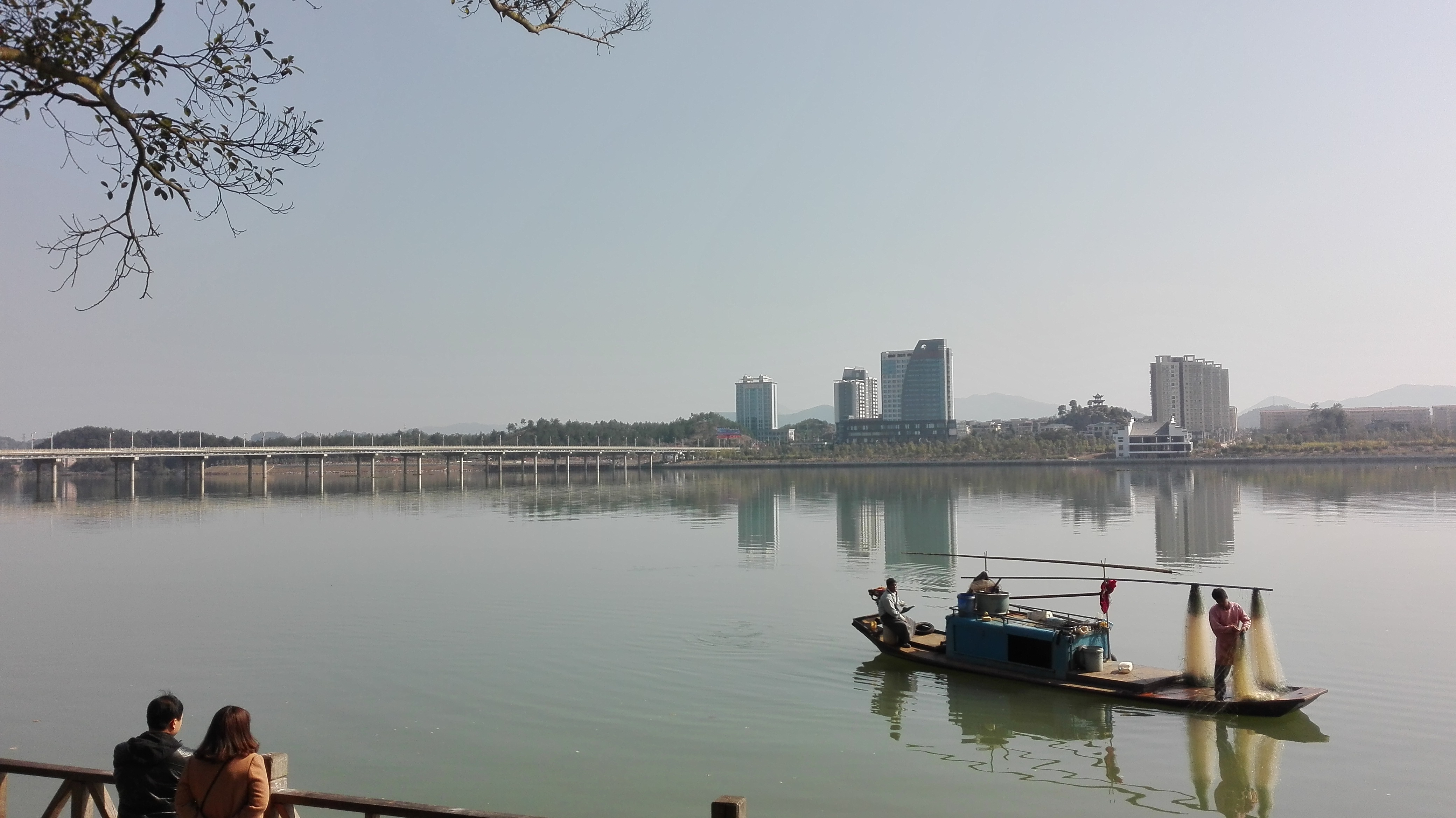 a photo of yudu city beside the gong river